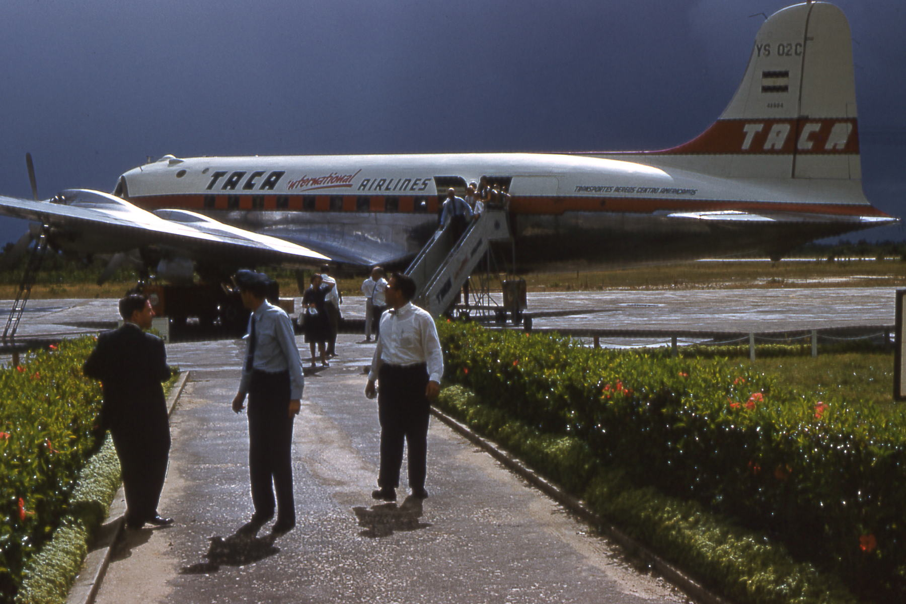 One of TACA Airlines DC4's which we flew on into the storm - say your prayers.